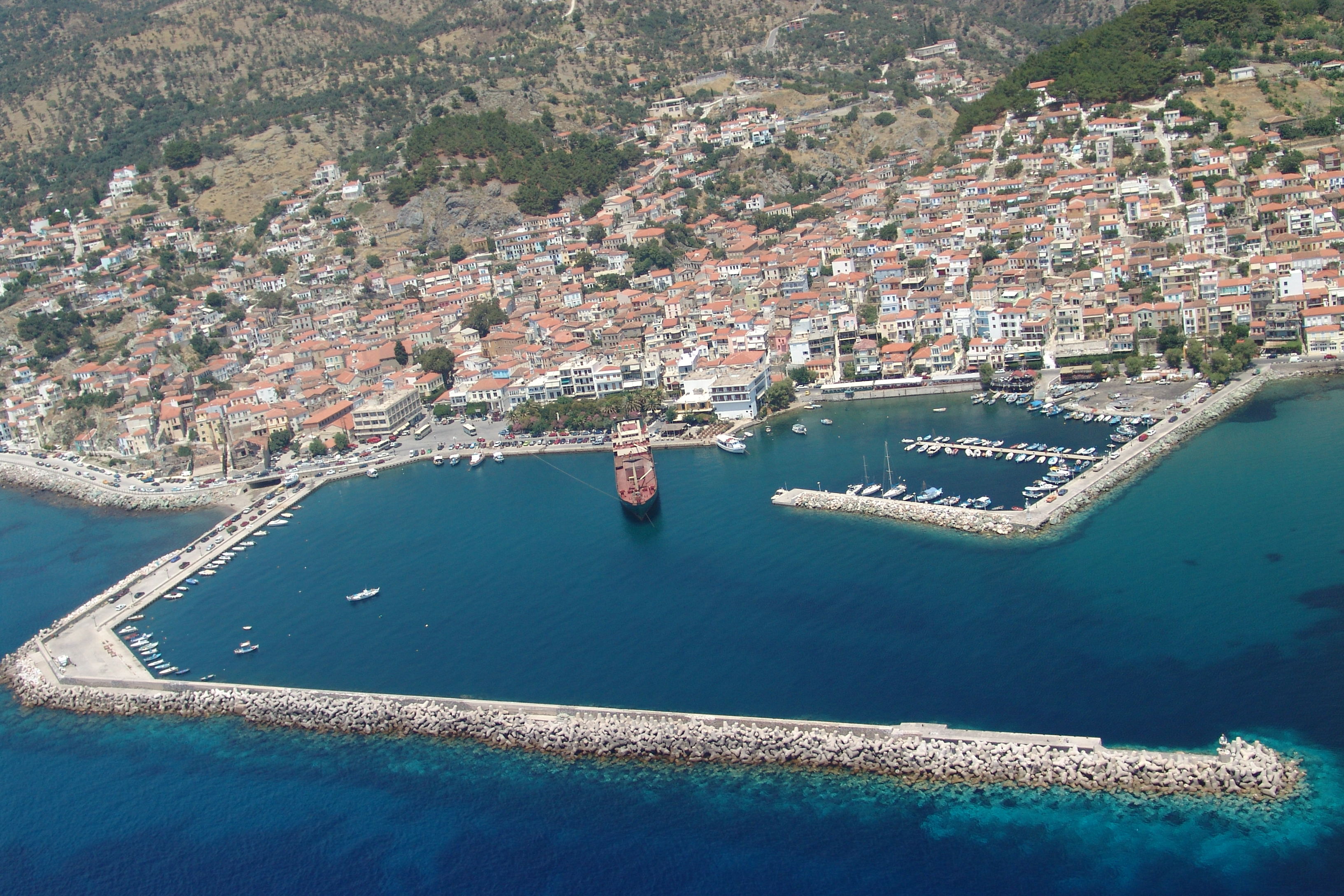 Aerial view of Plomari port in summer 2004. Photo taken by me. Costis STEFANOU